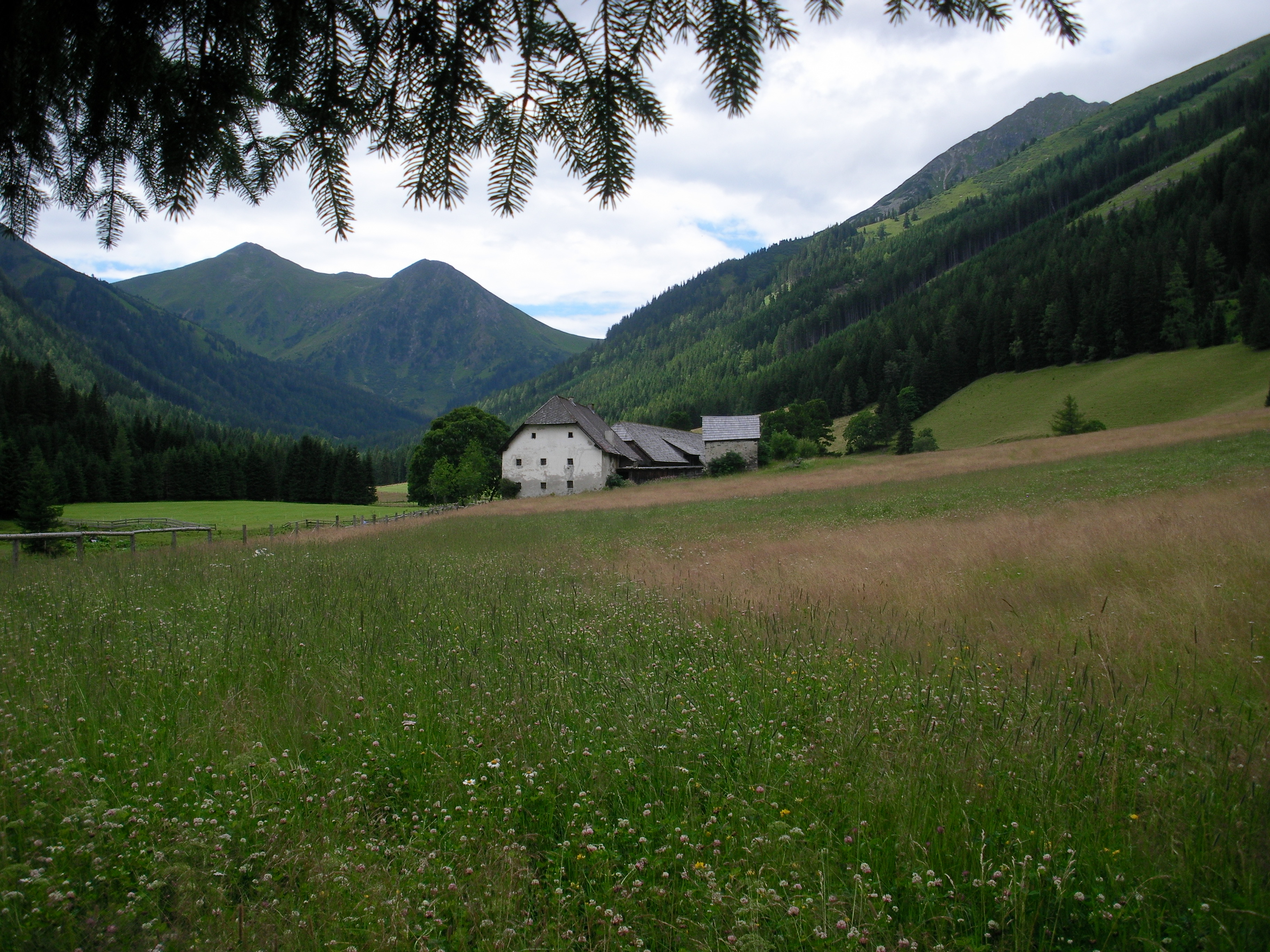 Emperor Maximilian I. hunting house.